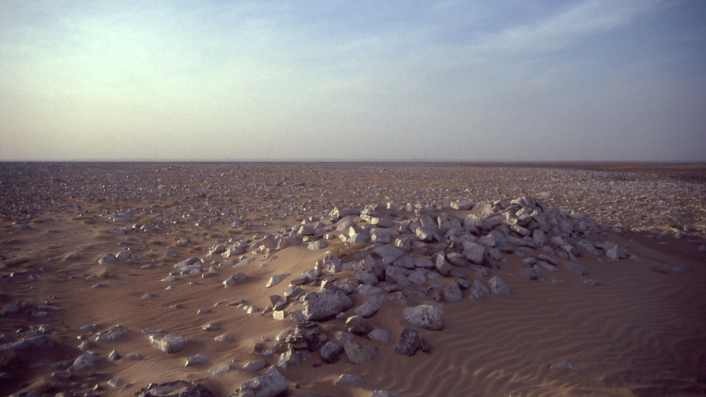 Near the Tanezrouft road, Mali, 1990.